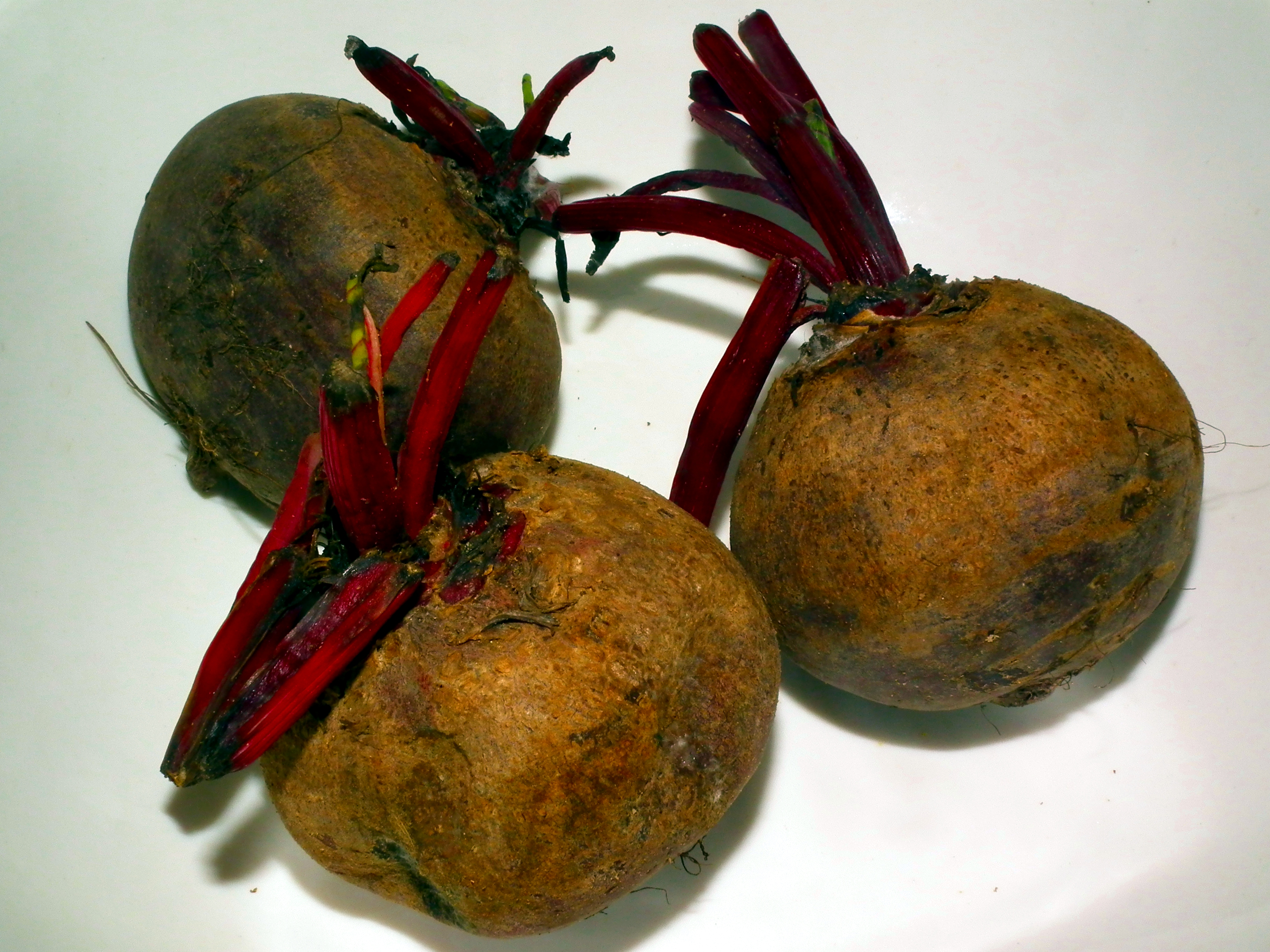 The beetroot, also known as the table beet, garden beet, red beet or informally simply as beet, is one of the many cultivated varieties of beets (Beta vulgaris) and arguably the most commonly encountered variety in North America and Britain.